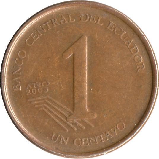 Ecuadoran 1 centavo.